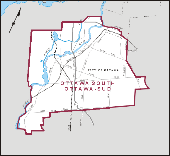 Summary: Map of Ottawa South provincial riding 1967-1977